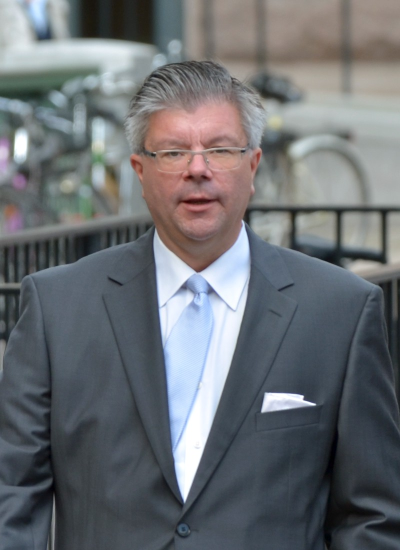 Hans Wallmark, member of the Riksdag for the Moderate Party.